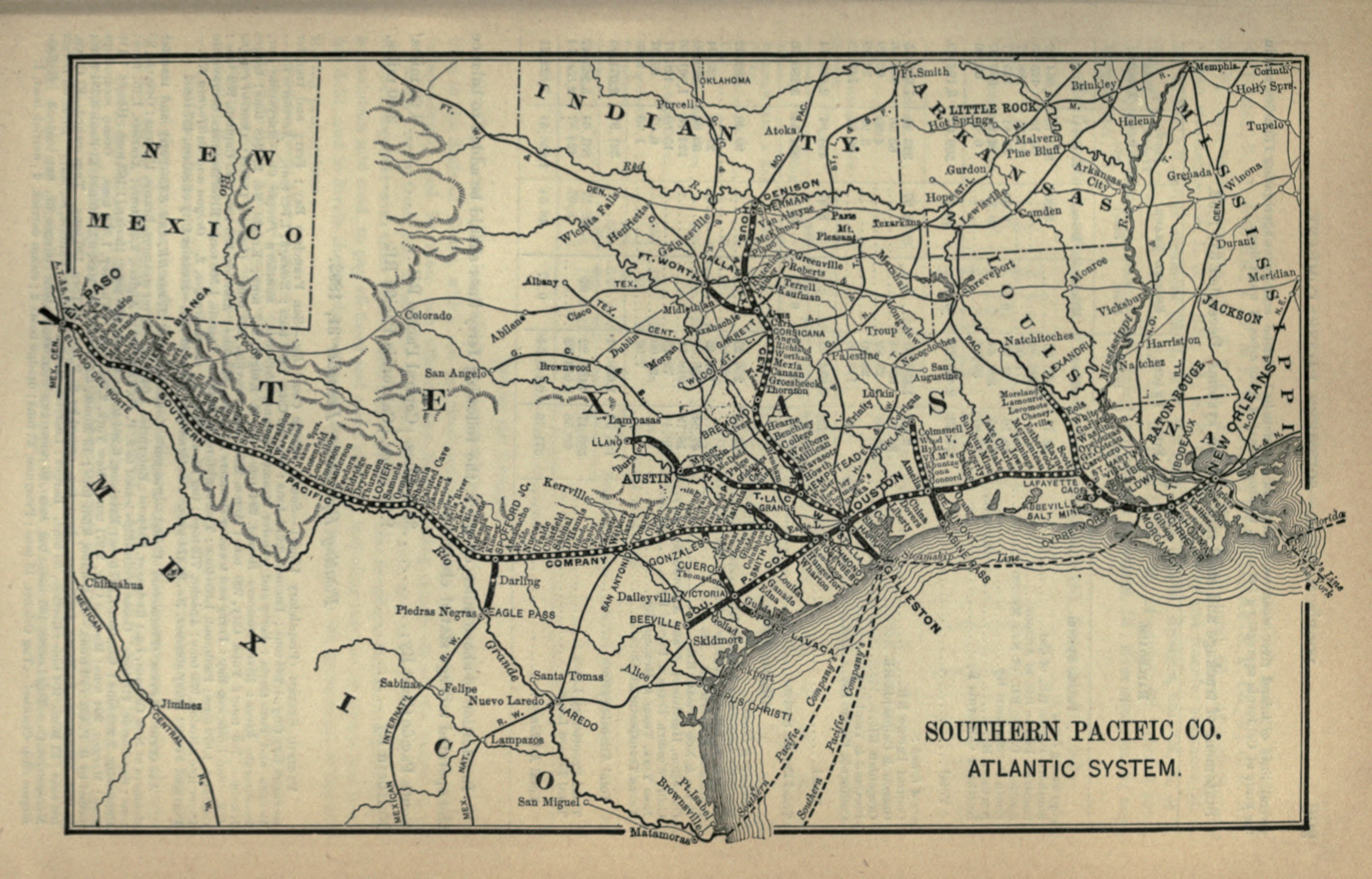 Southern Pacific Company Atlantic System